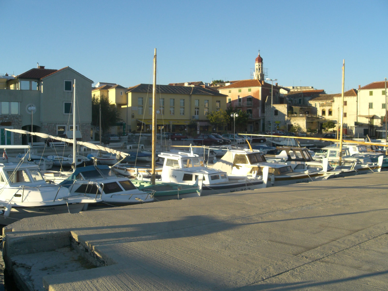 Betina, island of Murter, Croatia